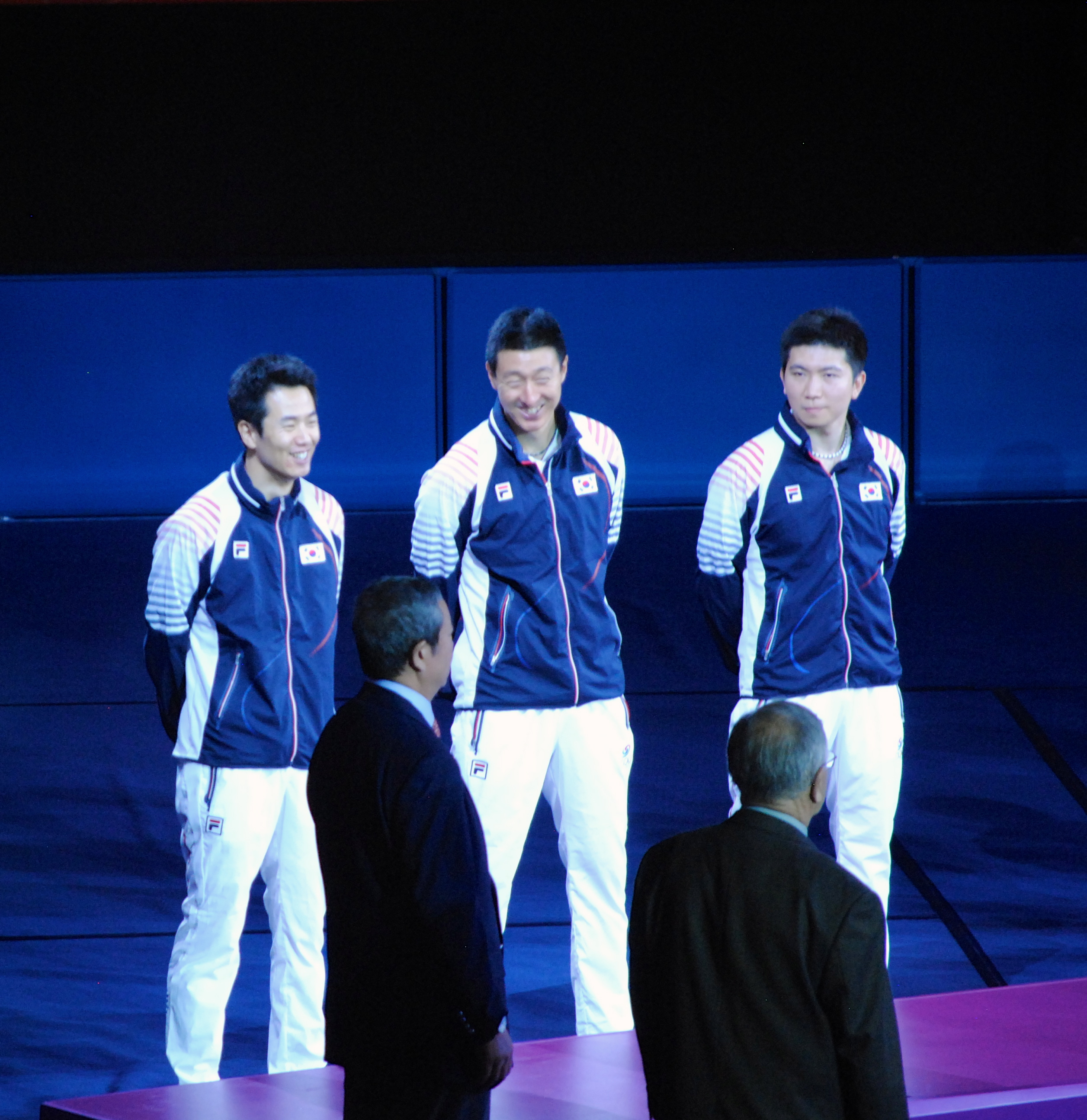 Silver Medalists - South Korea